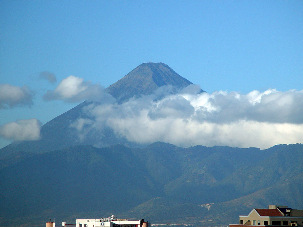 "Agua" volcano picture, taken from the penthouse of the "Unicentro" building in zone 10 of Guatemala City.